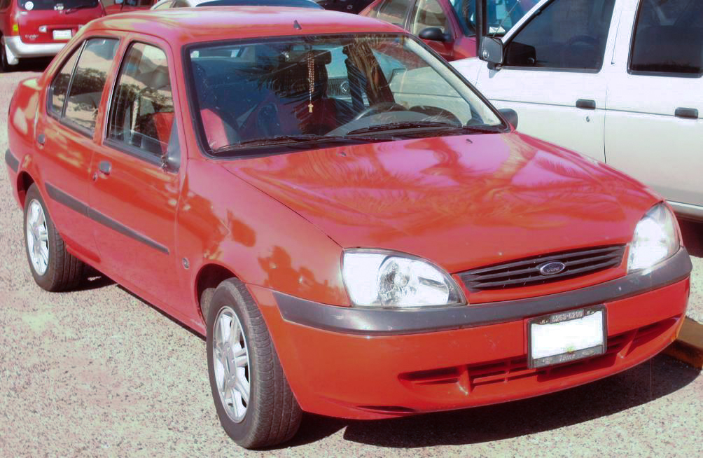 2001-present Ford Ikon photographed in Mazatlan, Sinaloa, Mexico.